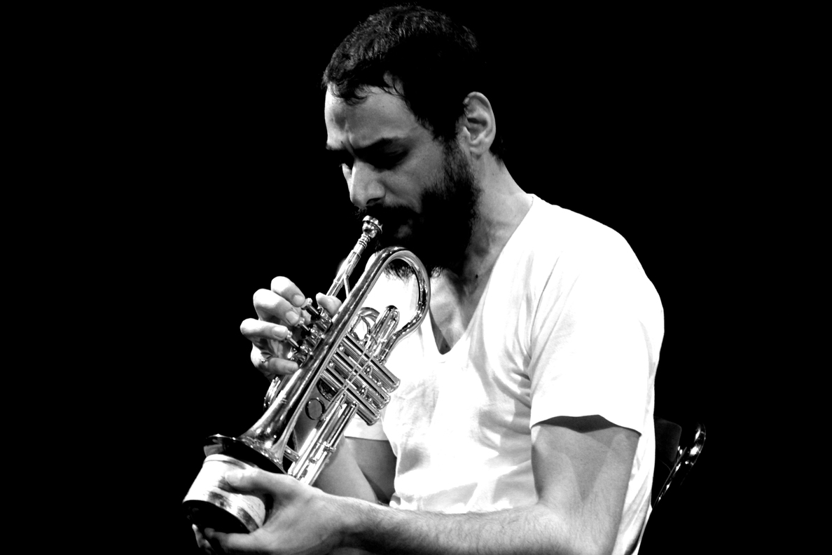 Photo of Mazen Kerbaj playing the trumpet at Irtijal '10